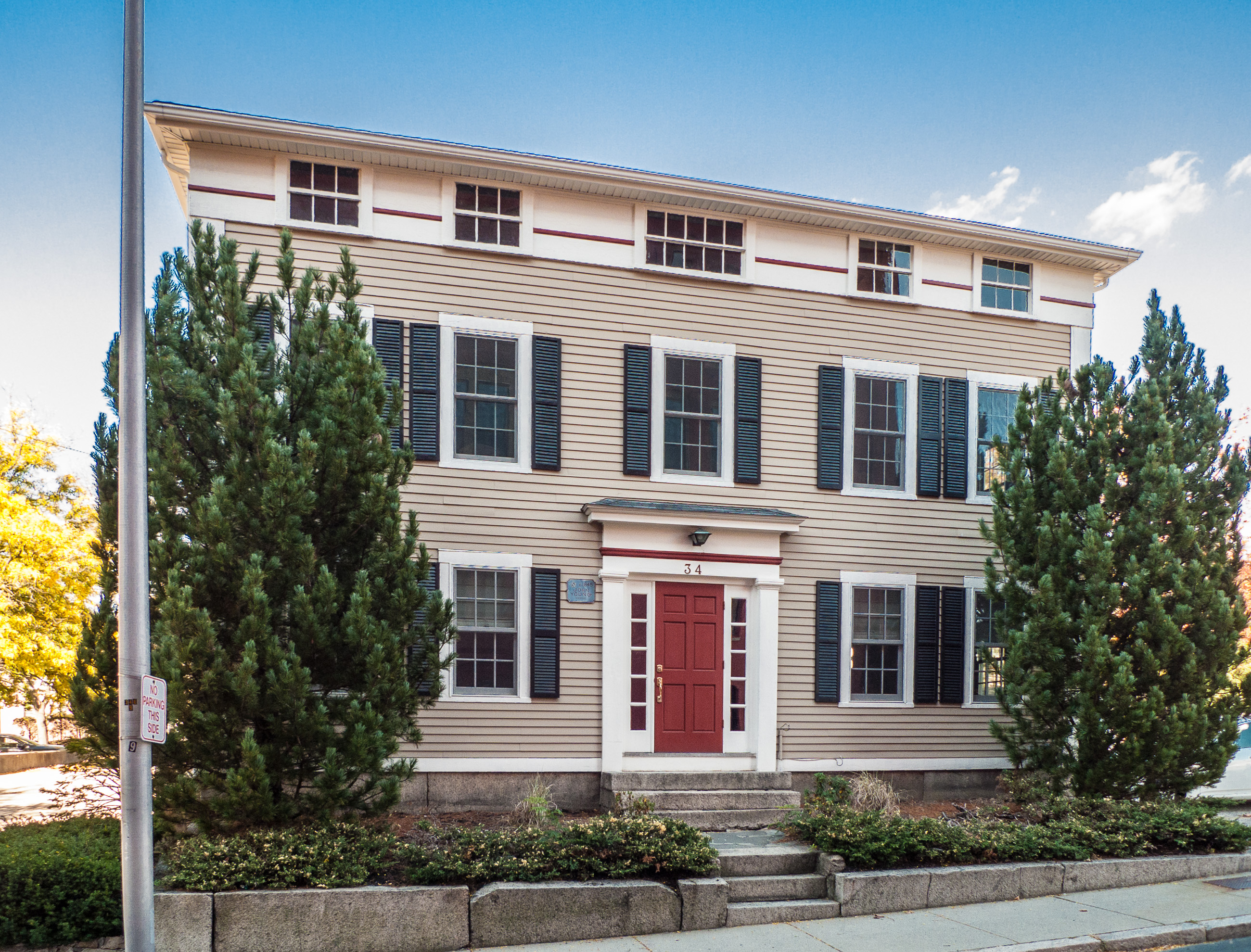 Belmont Club/John Young House. Fall River, MA. Taken October 2013.